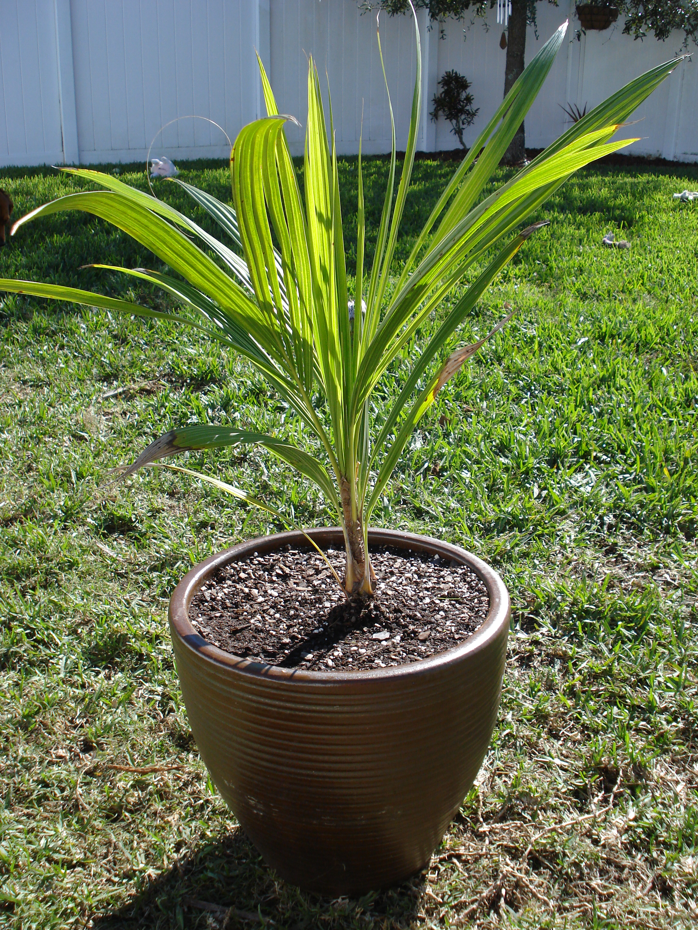 Seedling of Beccariophoenix alfredii in a pot in my yard in Florida